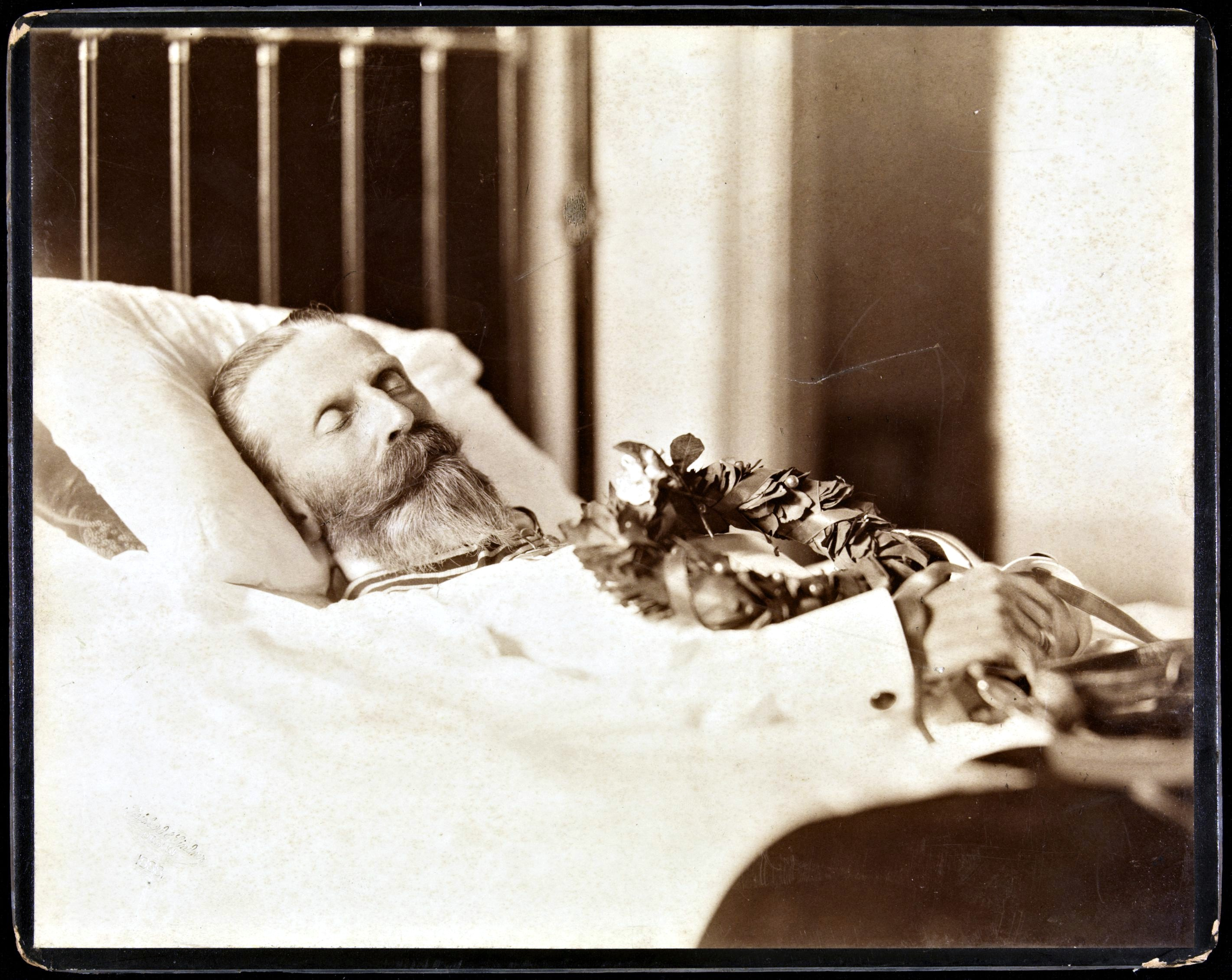 Post-mortem portrait of Emperor Friedrich III, 1888.Photograph, mounted on cardboard, with a post-mortem portrait of Emperor Friedrich III, laid out in the Neues Palais in Potsdam, on 16 June 1888. The Emperor lies with the head on a pillow, the hands are folded on the body. He wears a ribbon around the neck with the Grand Cross of the Iron Cross. On his chest lies a withered laurel wreath, which was deposited there with his sword by his widow Victoria. Vicky had given him the wreath in 1871 when he returned from the Franco-Prussian war.